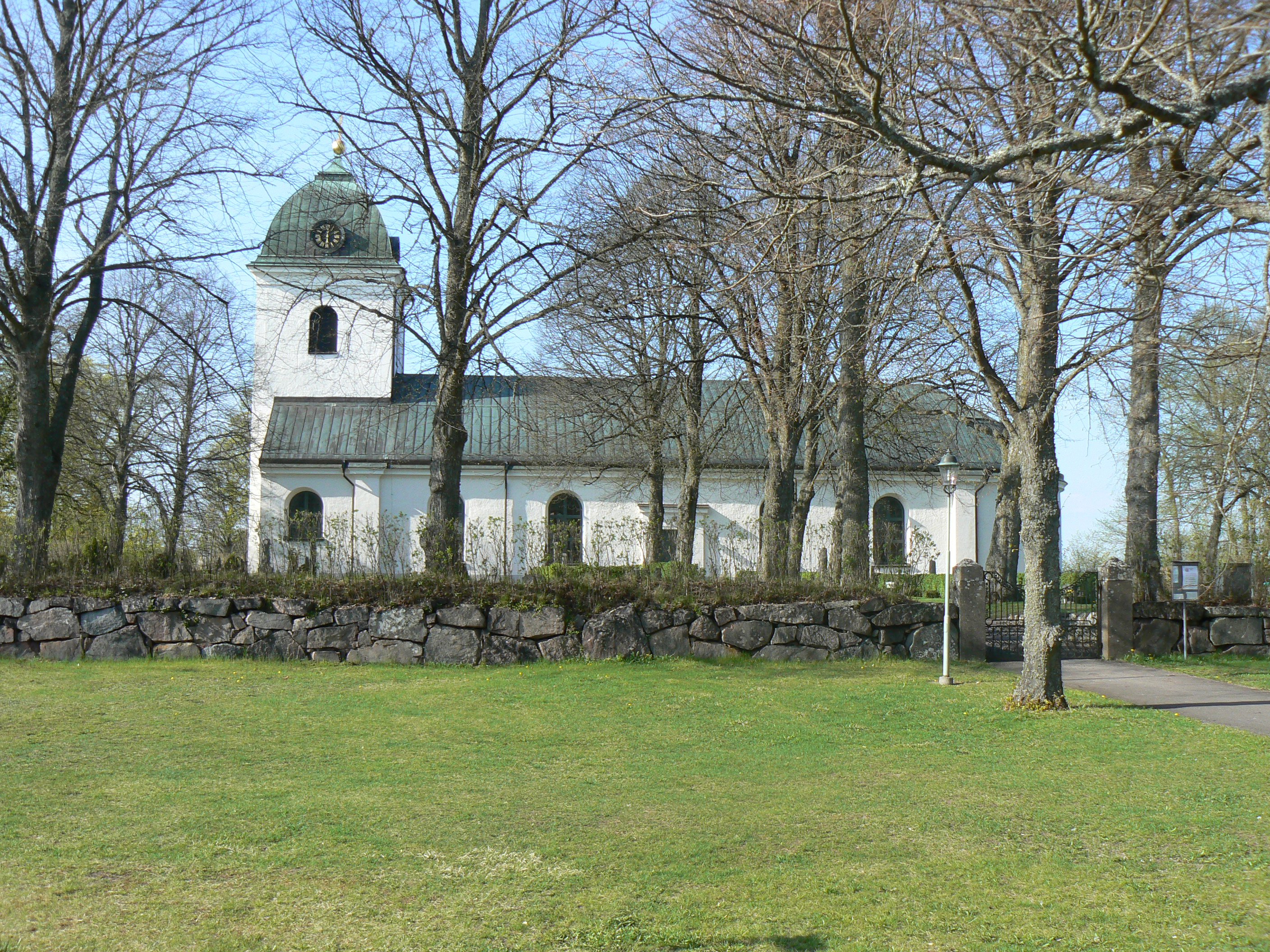 Gammalkil church, Church of Sweden in Gammalkil parish, Diocese of Linköping, Sweden.